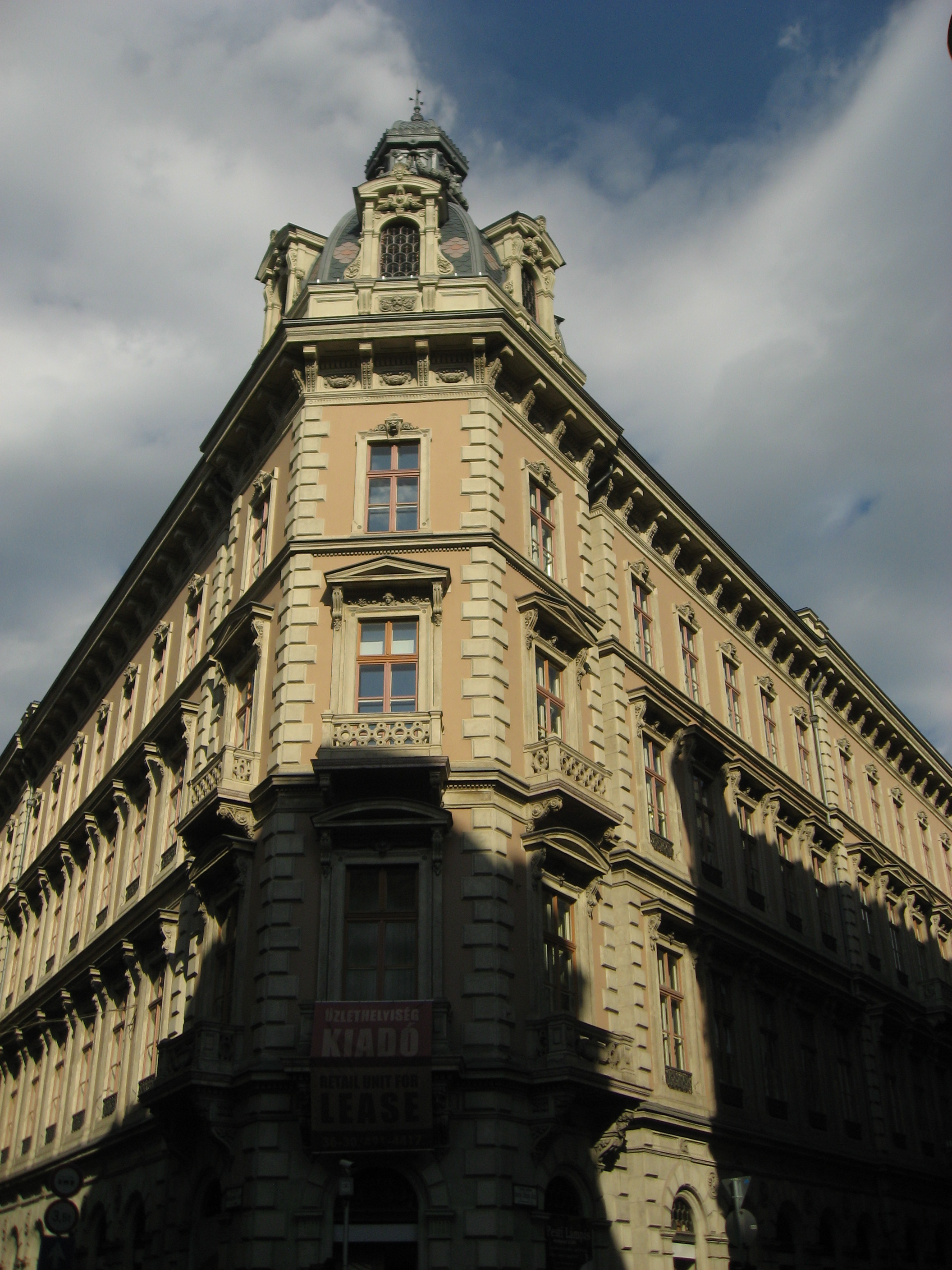 The Ybl-palace in the 5th District of Budapest